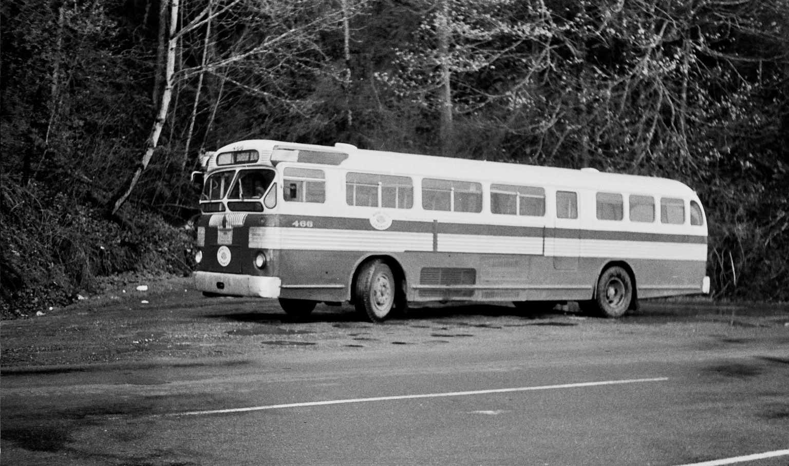 Portland, Oregon - Layover loop for Rose City Transit Company's Linnton line in 1963. Bus No. 466 was a 1948 Twin Coach 44-S.